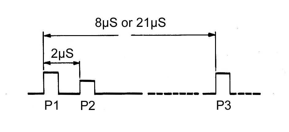 This is a widely used diagram associated with Secondary Surveillance Radar